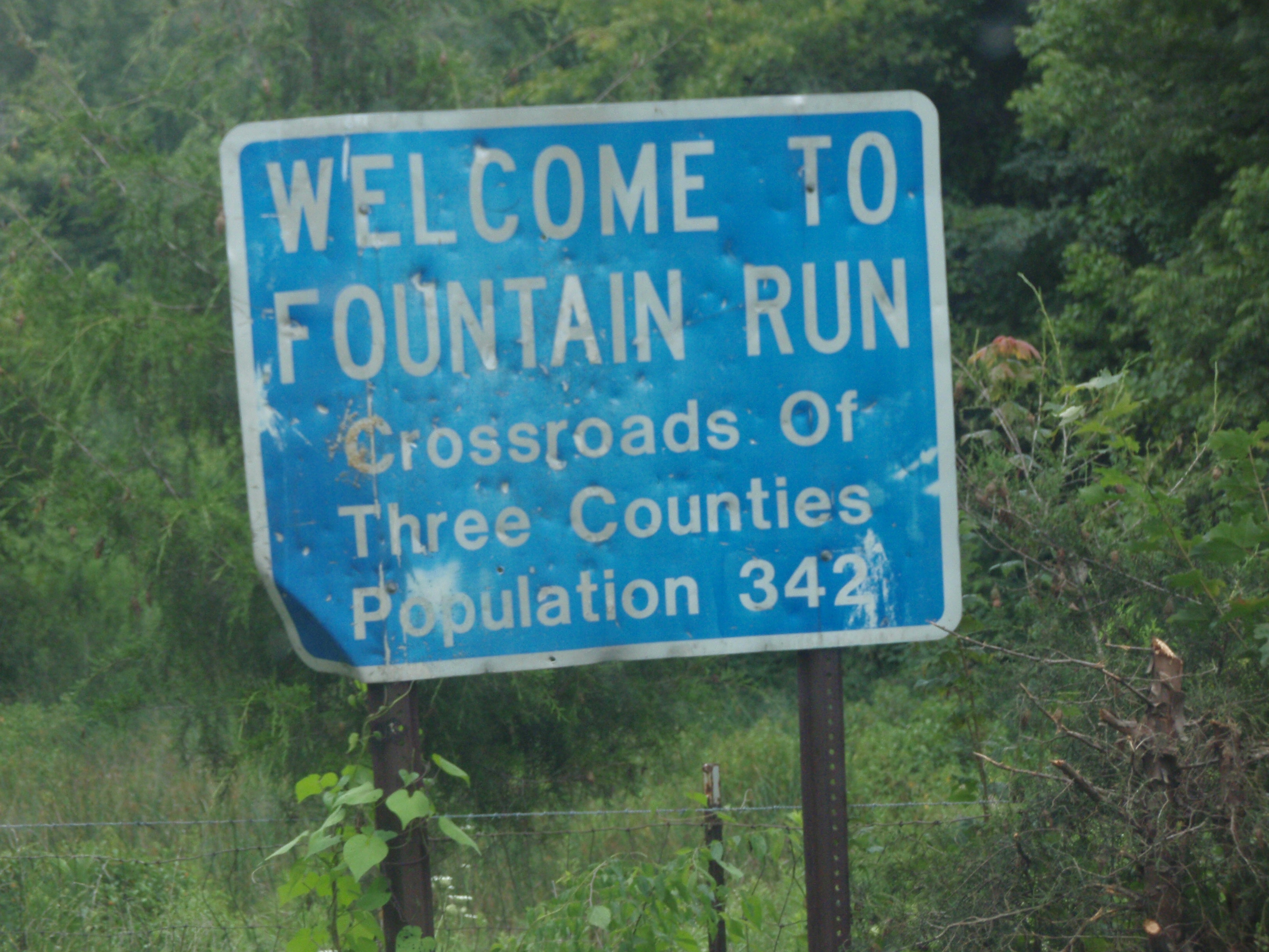 Fountain Run Sign - Crossroads of Three Counties - Fountain Run, Kentucky